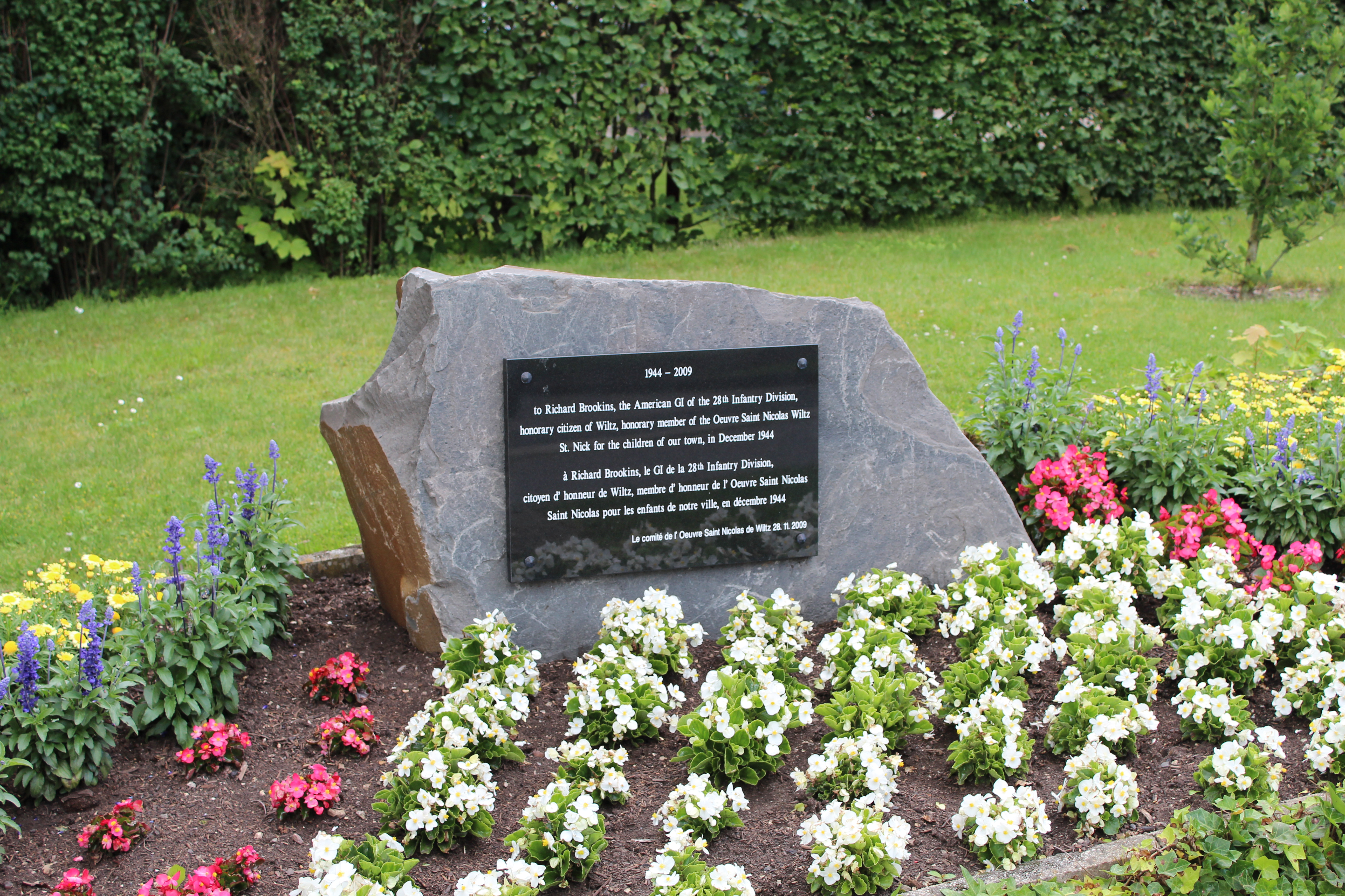 Richard Brookins memorial plate; Wiltz, Luxembourg.